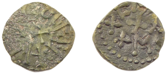 Anglo-Saxon England, Kings of Northumbria, AE Styca of Osbert (849-867 AD). AE Styca, struck circa 862-867 AD. Obverse: Central cross, inscription around: +OSBERTH. Reverse: Central cross with partly (il)legible inscription: X X M, pelleted border around